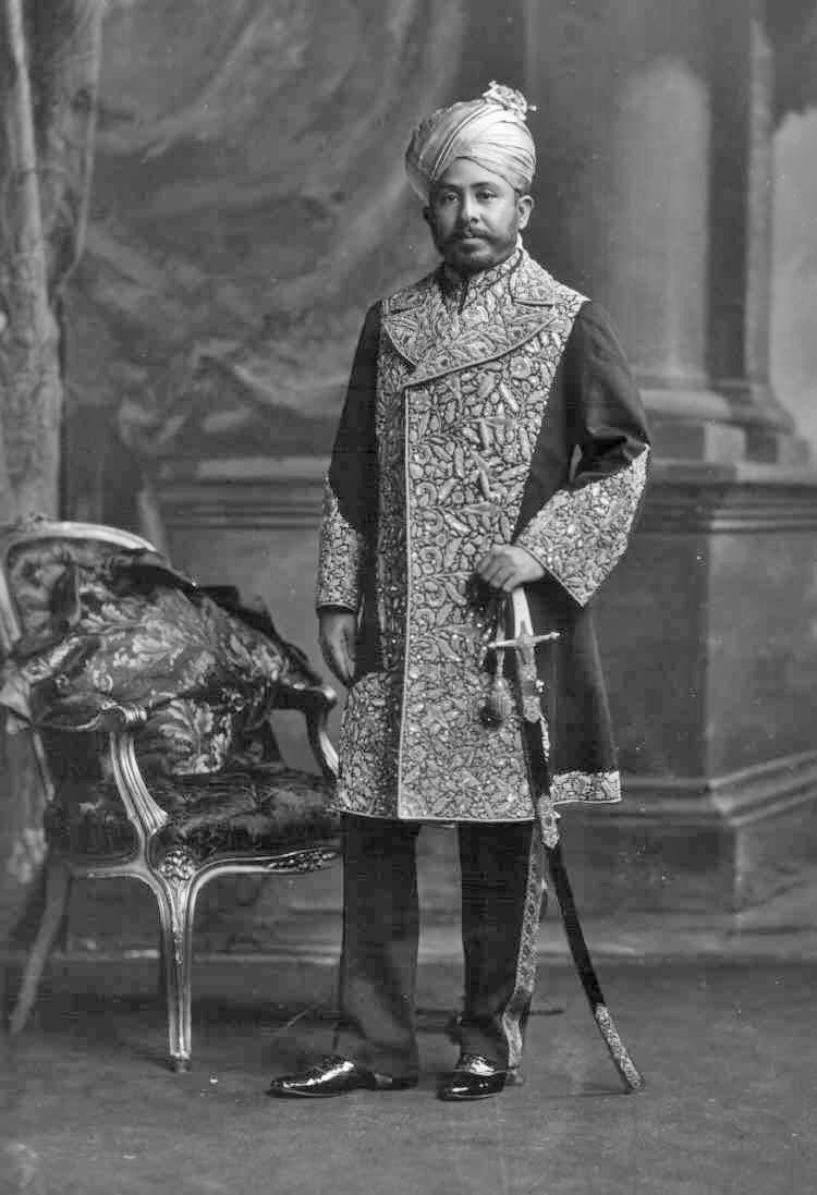 Nawab Sir Fateh Ali Khan Qizilbash of Nawabganj (1862-1923). Leading Punjabi Muslim; representative of Punjab at Famine Conference 1897; reigned 1896-1923.